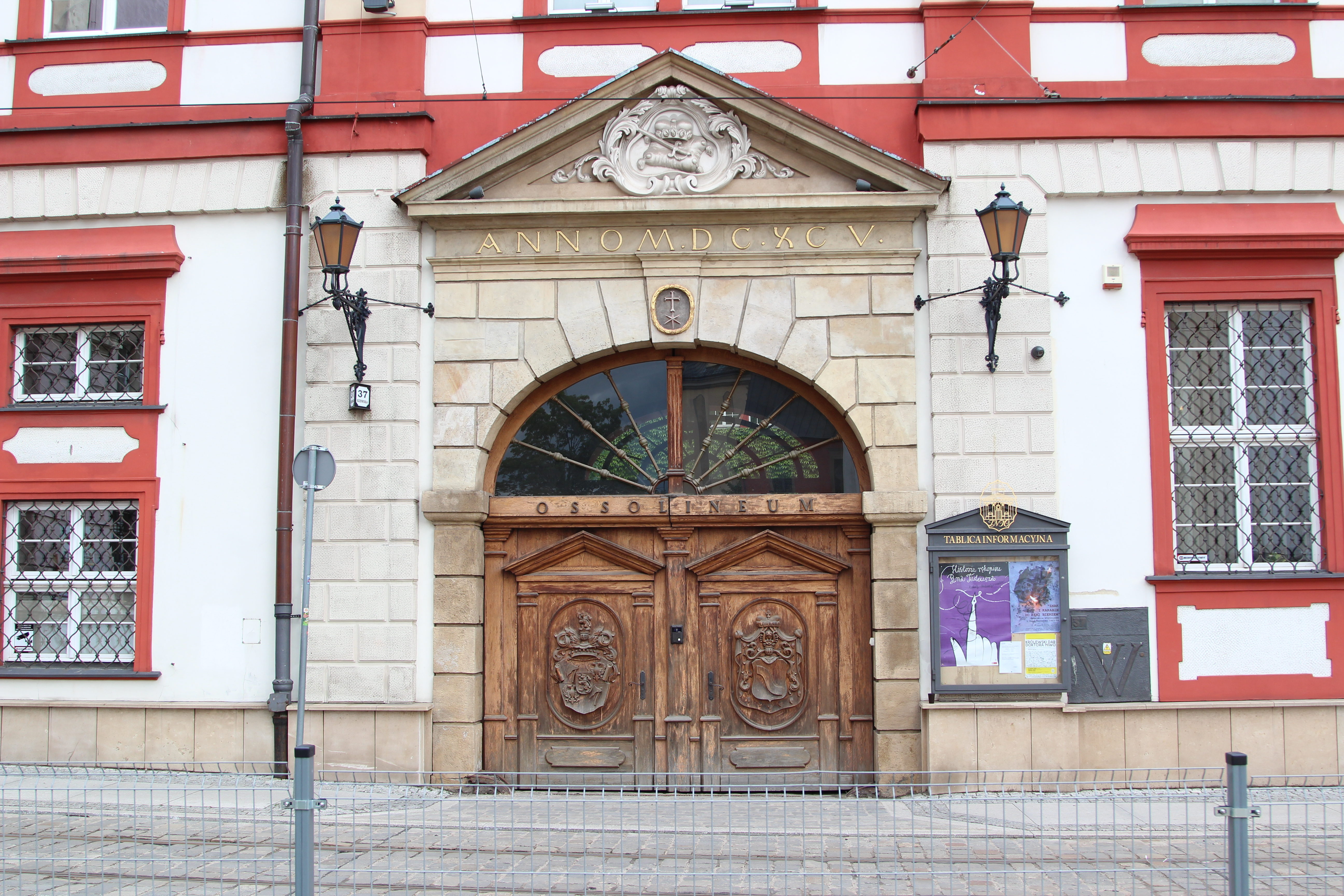 Front gate of Ossolineum in Wrocław